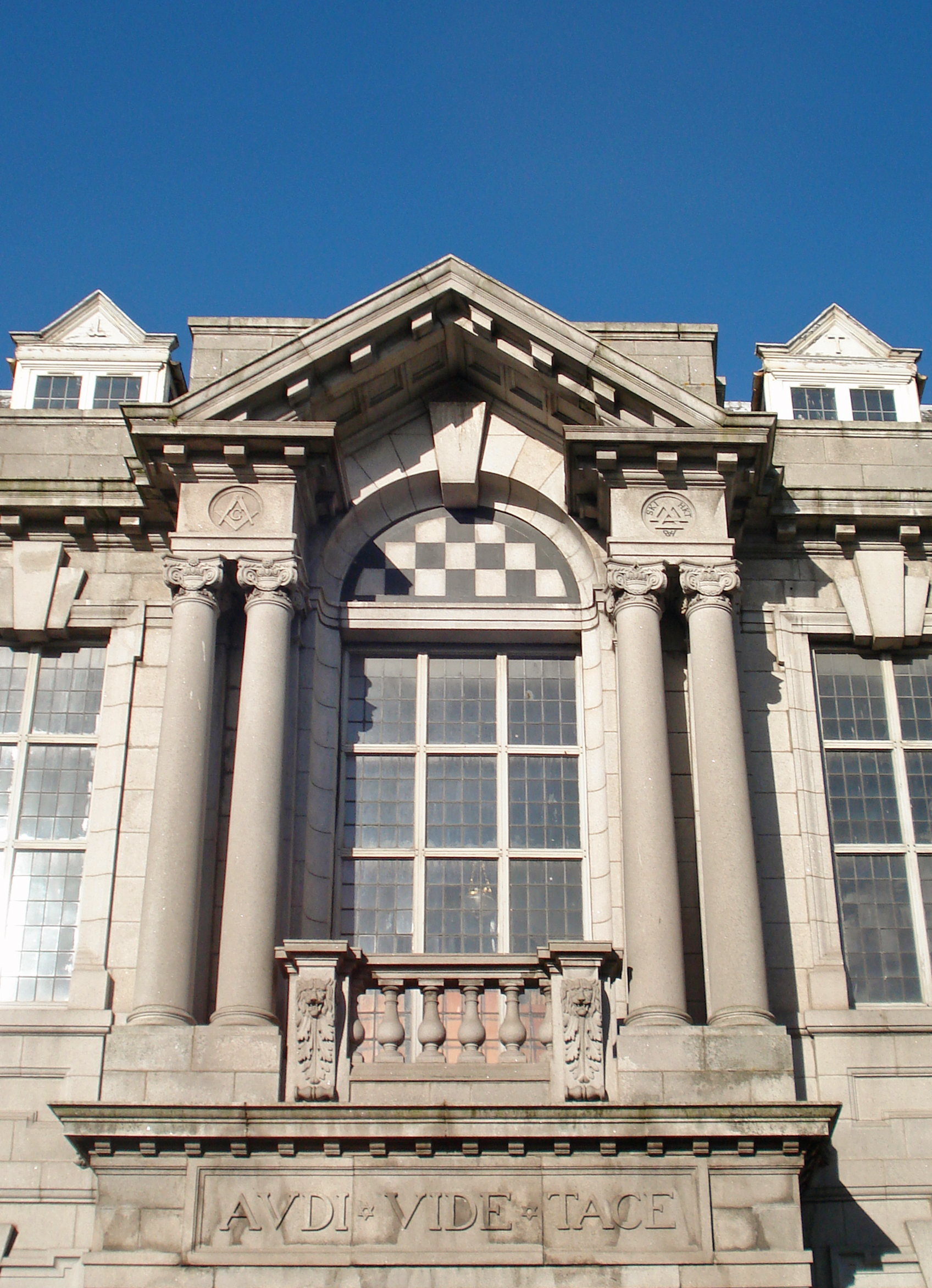 Masonic Temple in Aberdeen, Scotland, photo courtesy of Jane Cartney